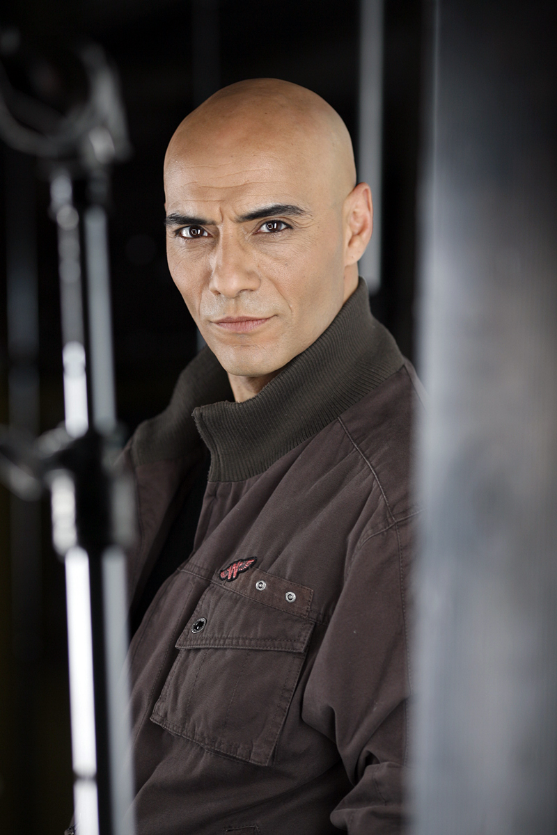 This is a 2008 publicity and promotional photograph of the actor, singer and songwriter (entertainer) Anthony J. Mifsud also know internationally as Mif.